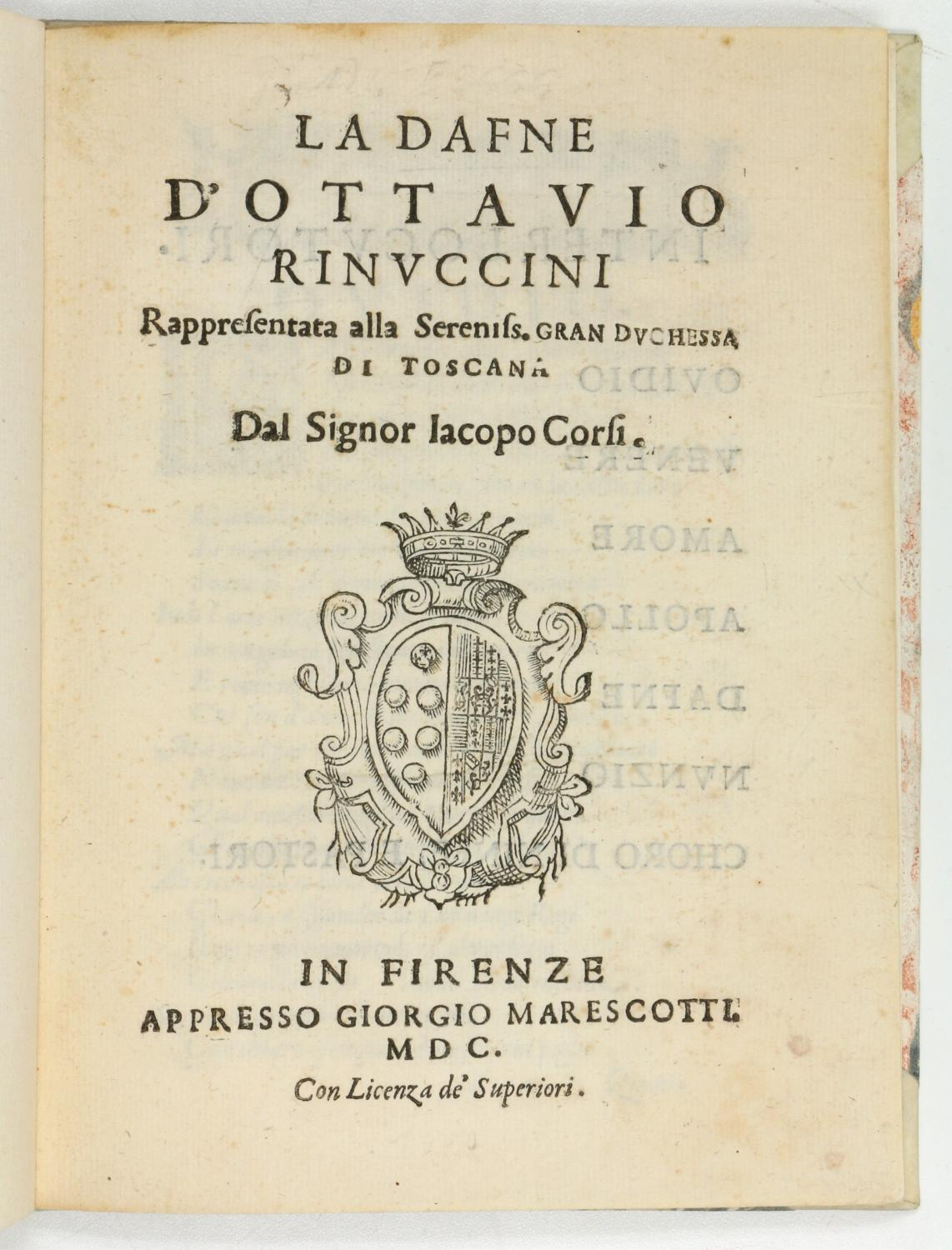 Titel page of the libretto of La Dafne, generally considered to be the first opera